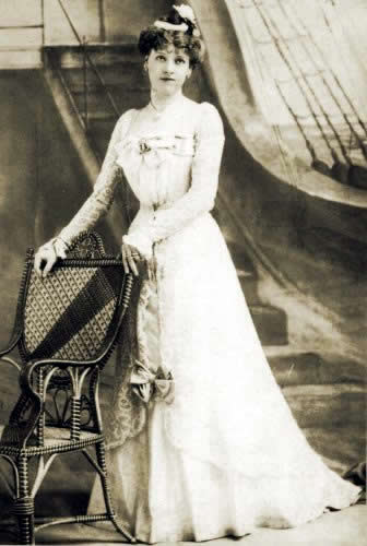 Ruth Vincent (1877-1955) as Josephine in H.M.S. Pinafore, 1898 revival.